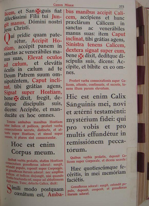 The page of the consecration of the bread and wine into the Body and Blood of Christ, a Roman Missal published in the reign of Pius XII in 1956.